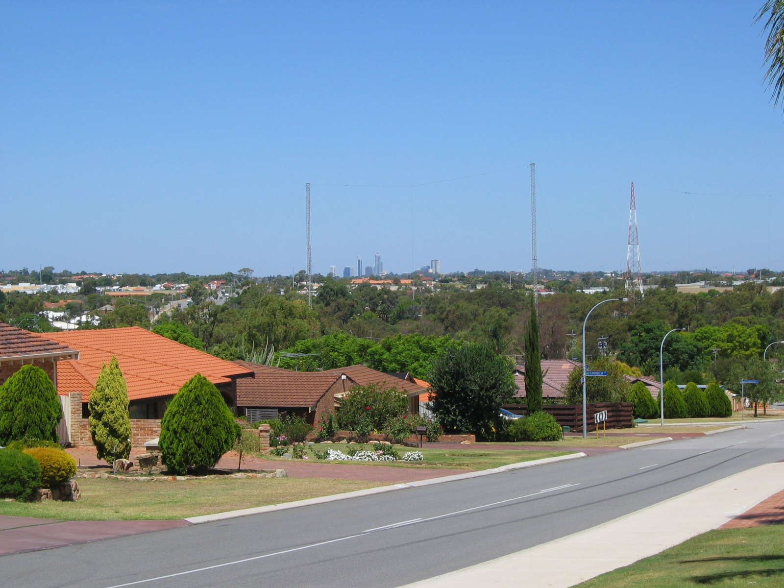 View south from Rannoch Circle in Hamersley, Western Australia.